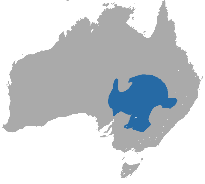 Paucident Planigale (Planigale gilesi) range